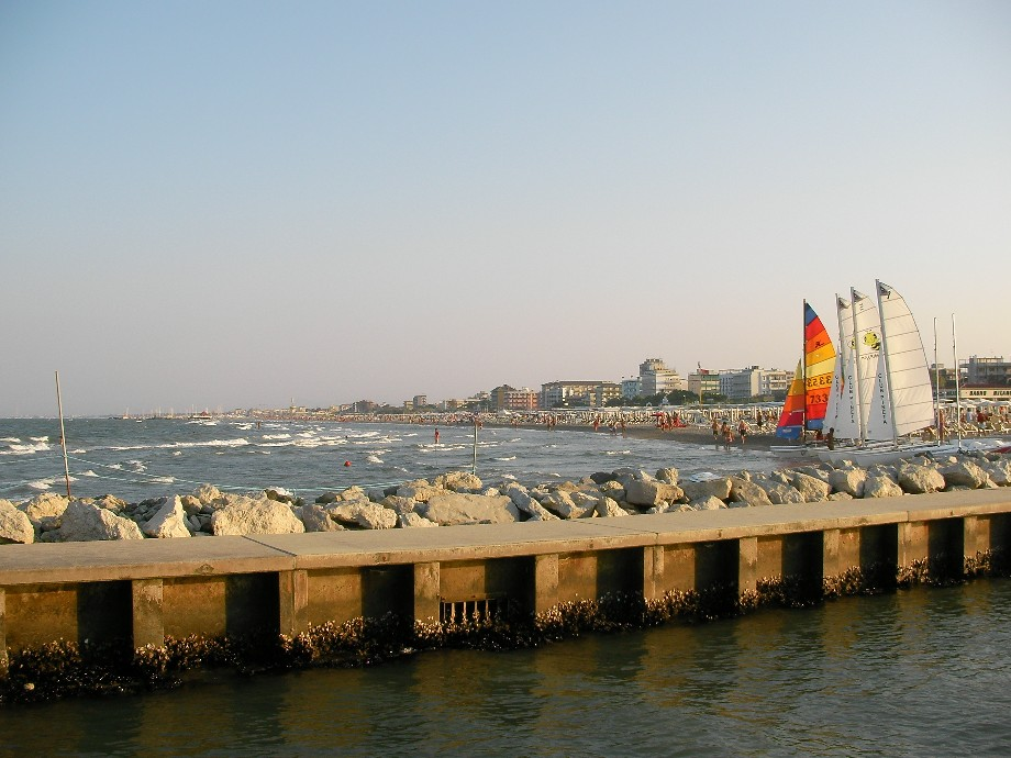 Milano Marittima